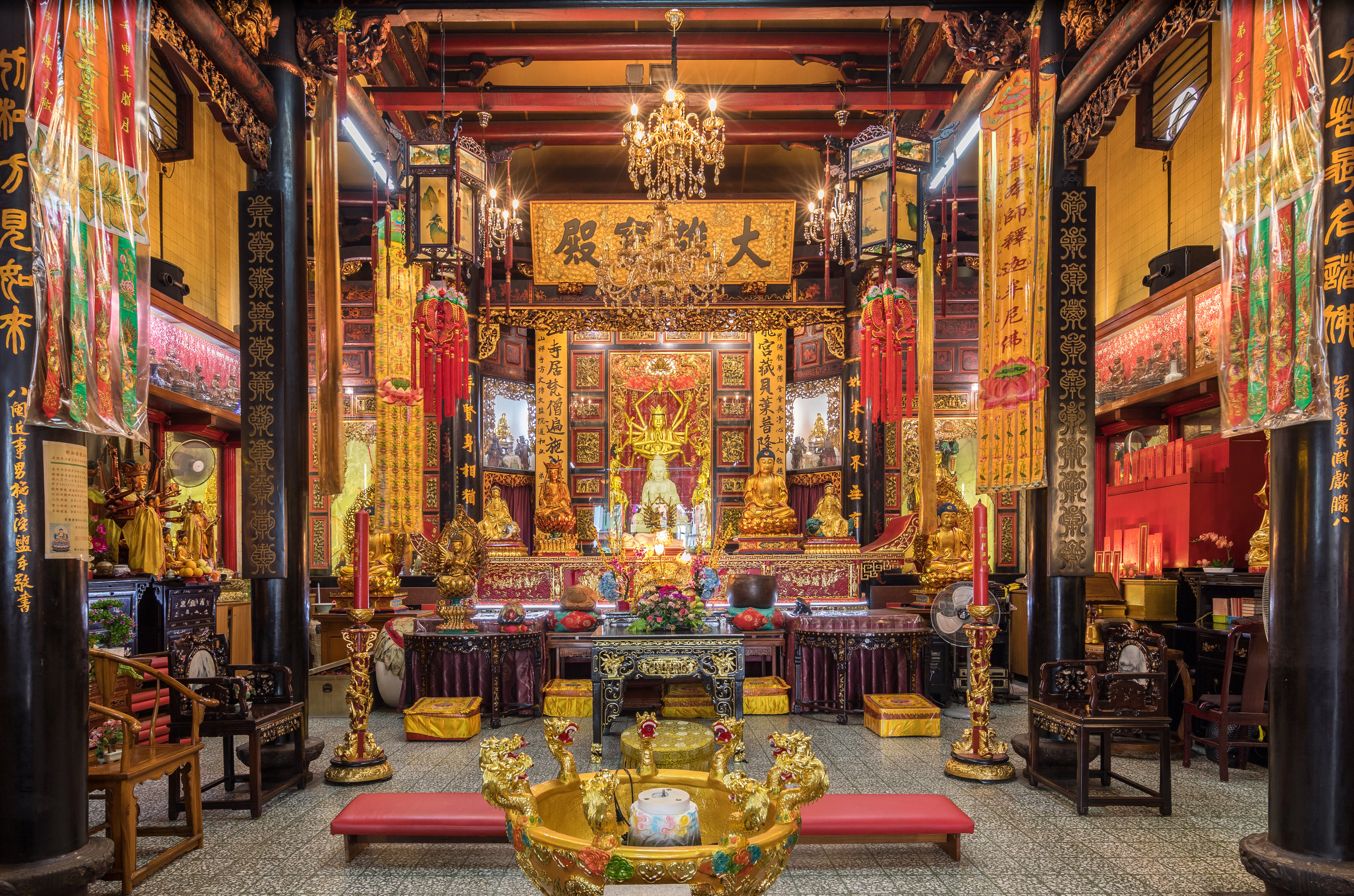 Interior of the Leong San See Taoist temple, 371 Race Course Road, Singapore 218641